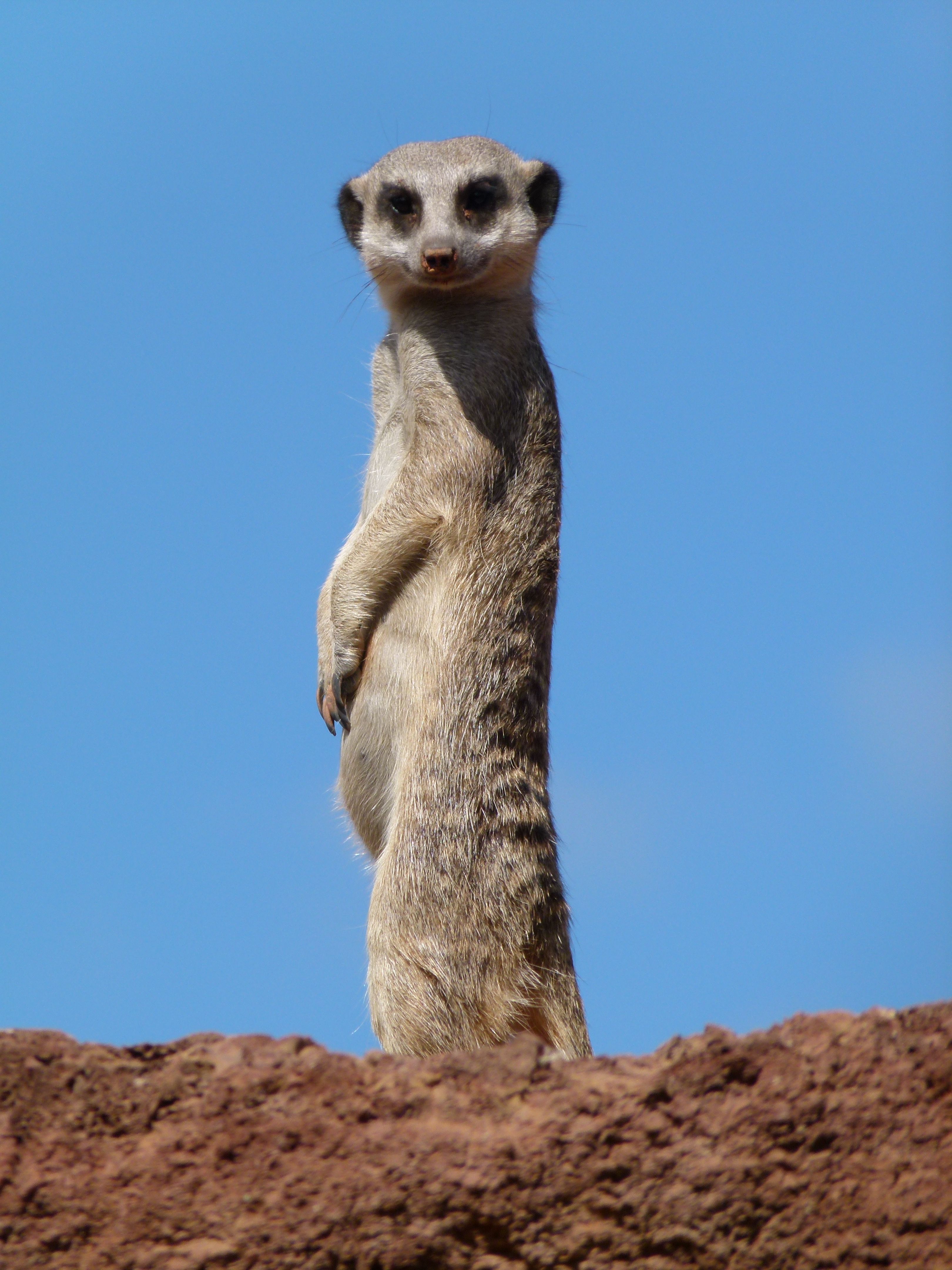 Suricate (meerkat) in the Oasis Park, La Lajita, Pájara, Fuerteventura, Canary Islands, Spain